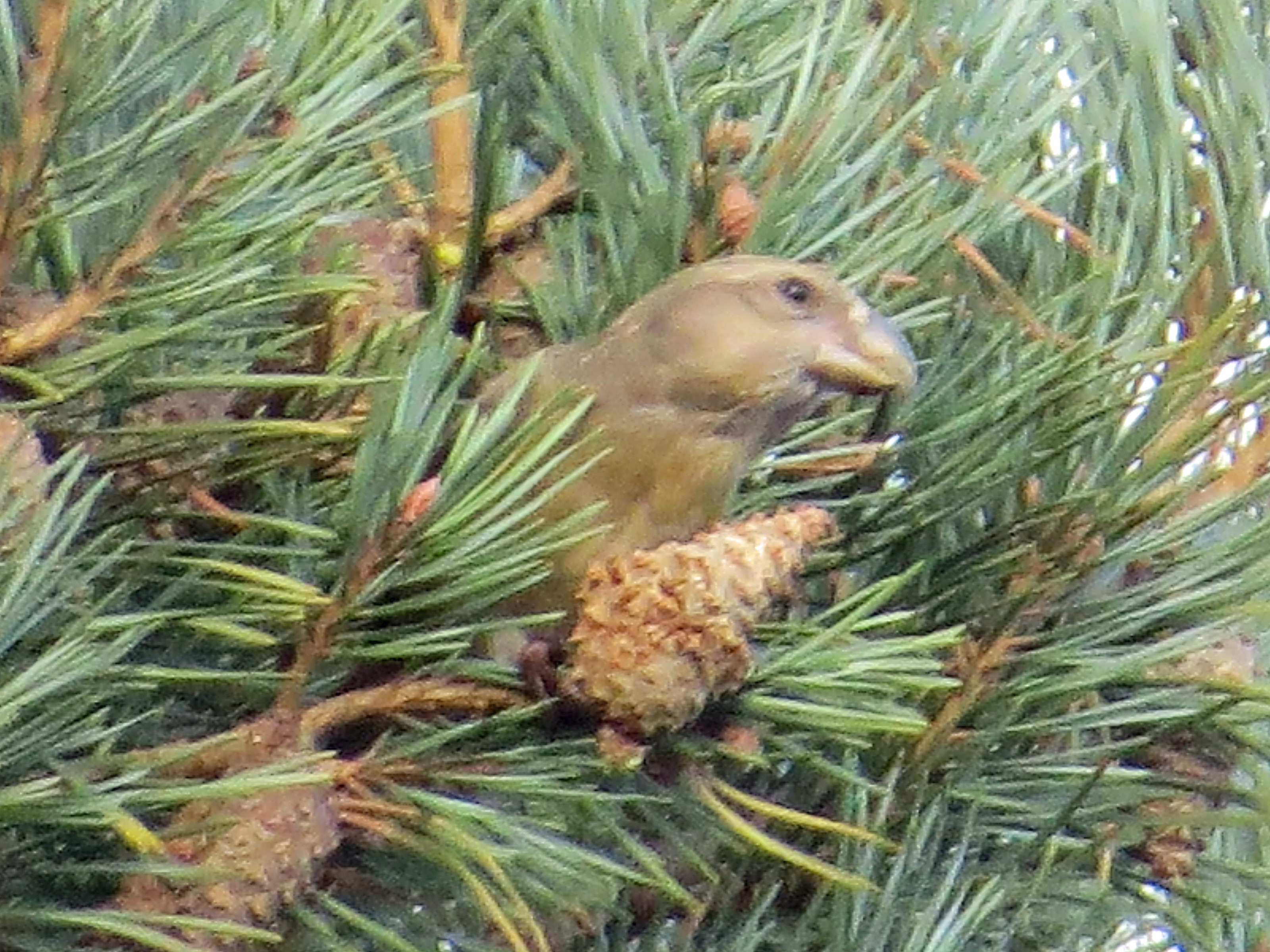 Parrot Crossbill Loxia pytyopsittacus ♀, Budby Common, Nottinghamshire